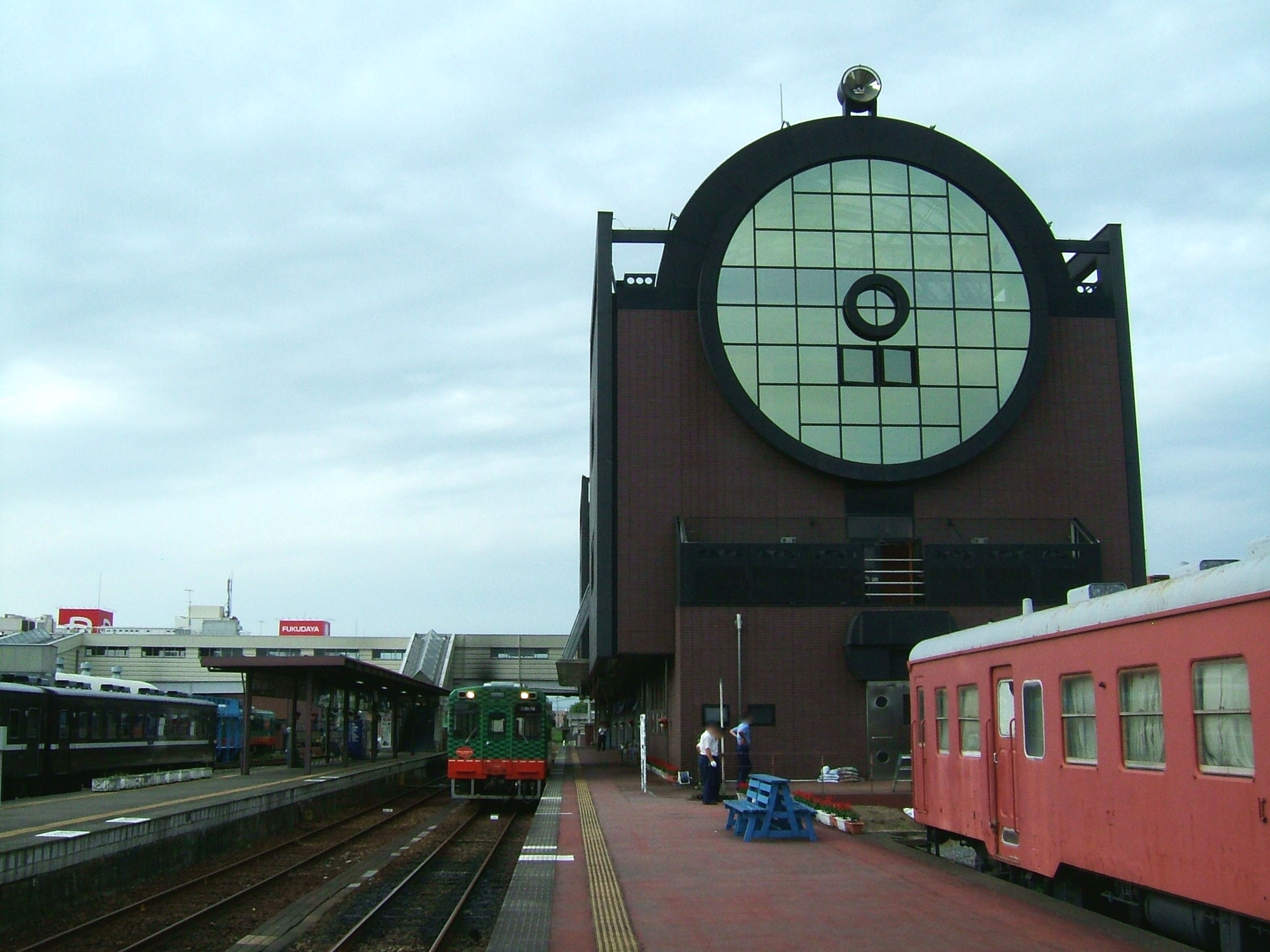 The platforms of Mōka Station, Mōka Railway Mōka Line